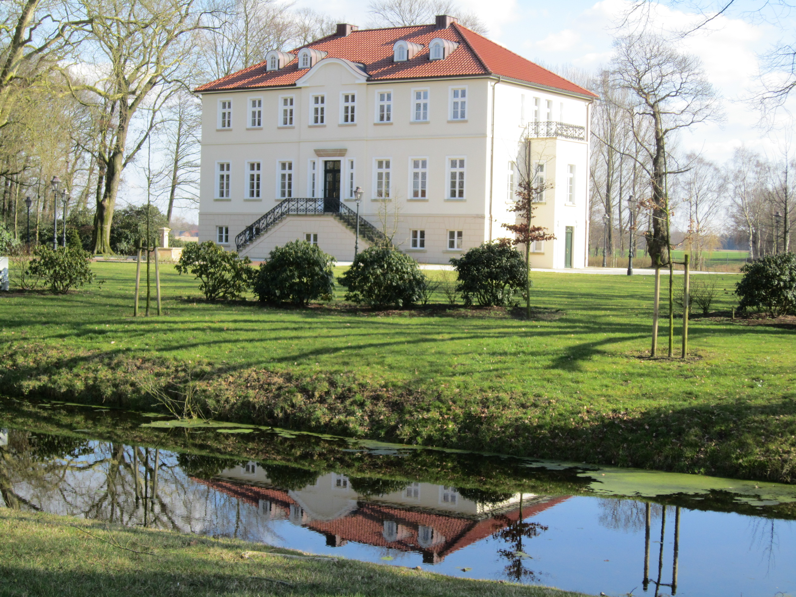 Lage Manour and its moat